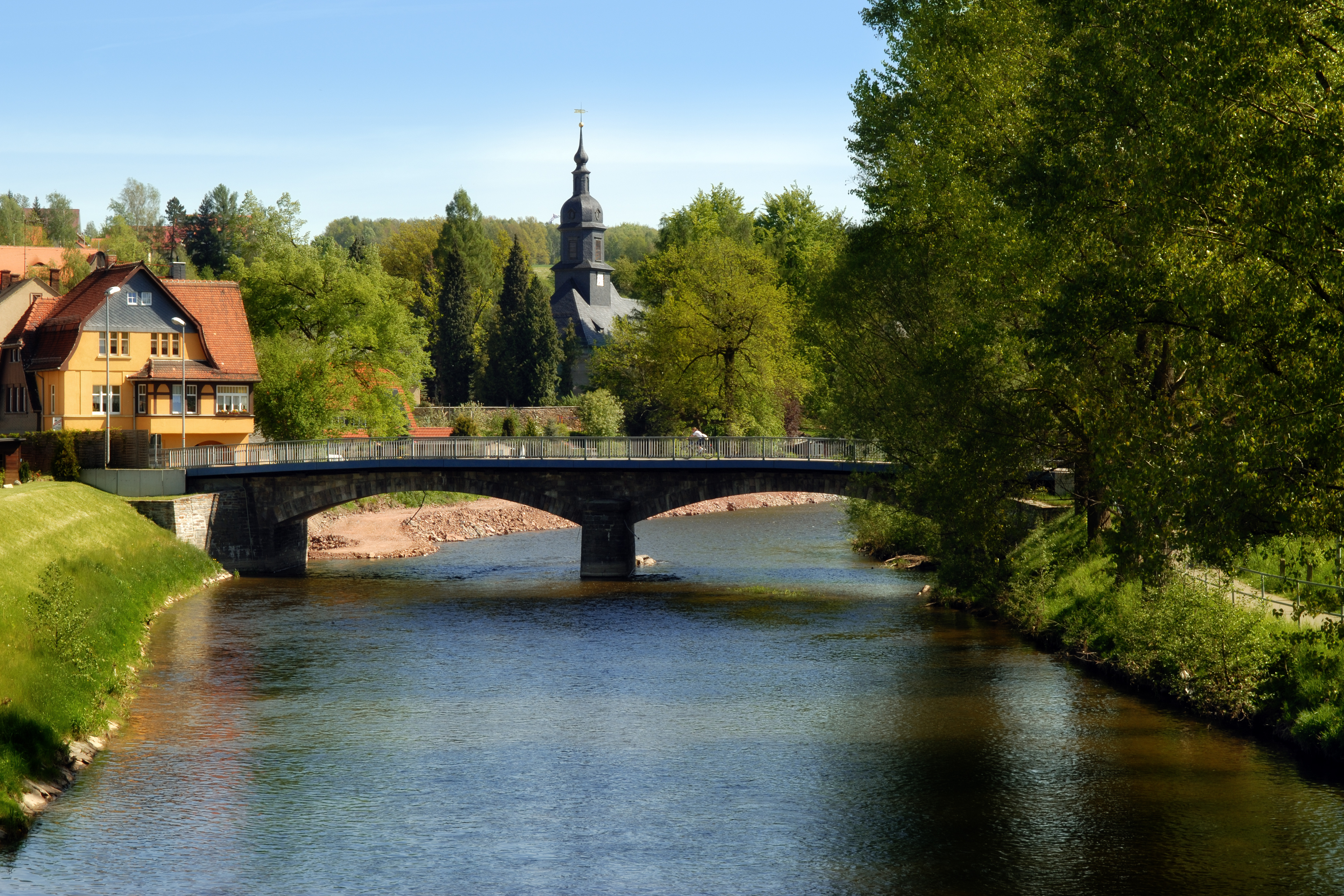 This image shows the river Flöha in the town Flöha, Germany. In the background there is a bridge with the Augustusburg street and the George church.